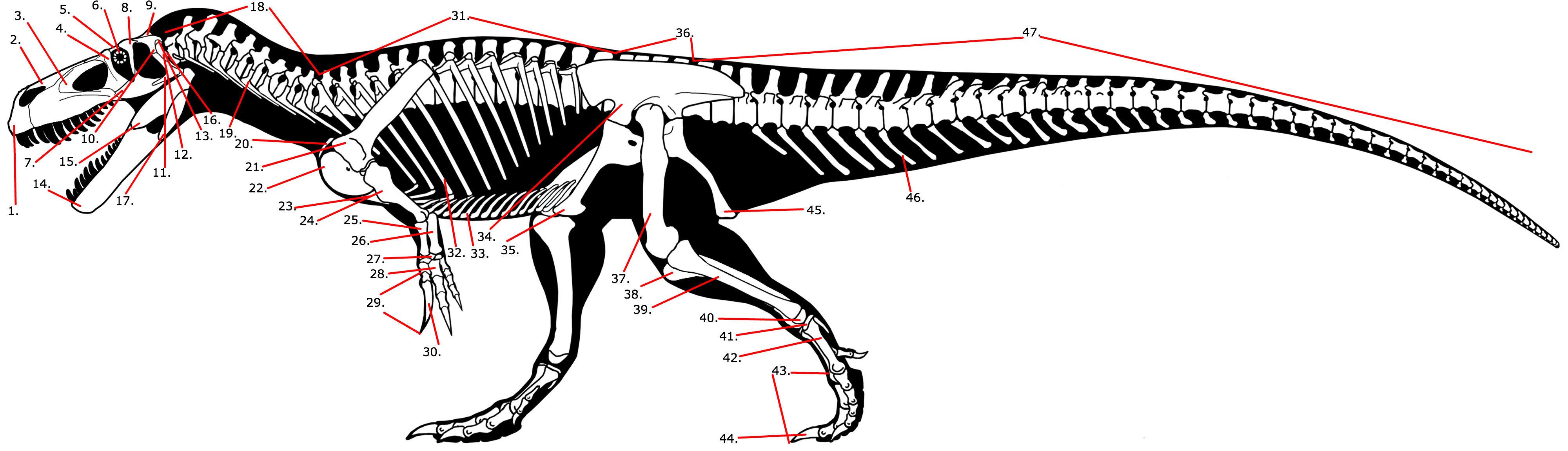 Skeletal reconstruction of Torvosaurus gurneyi in lateral view showing the skeletal anatomy of theropods, with the specific bones labelled.